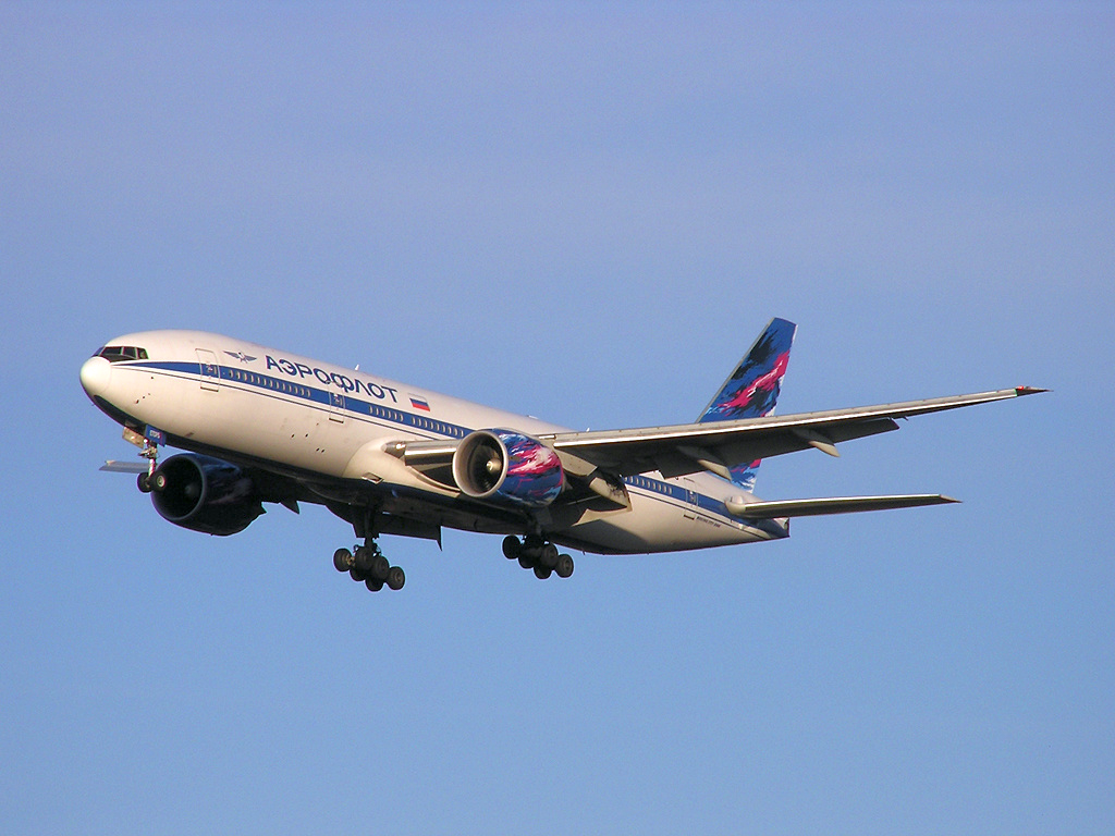 An Aeroflot Boeing 777-2Q8/ER on approach to Sheremetyevo Airport (SVO / UUEE)